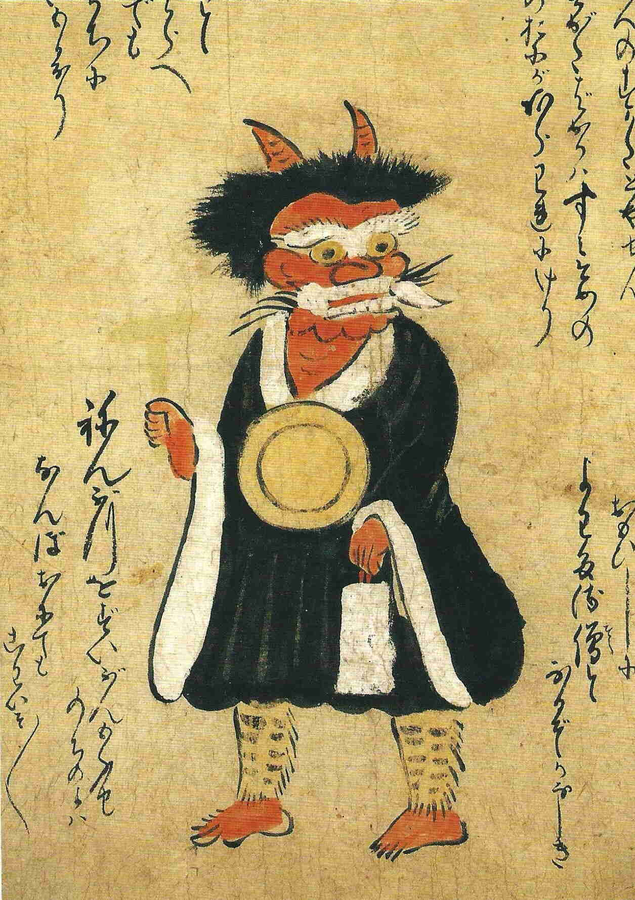 Otsu-e devil as Buddha